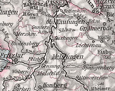 Detail from a map of Hesse.